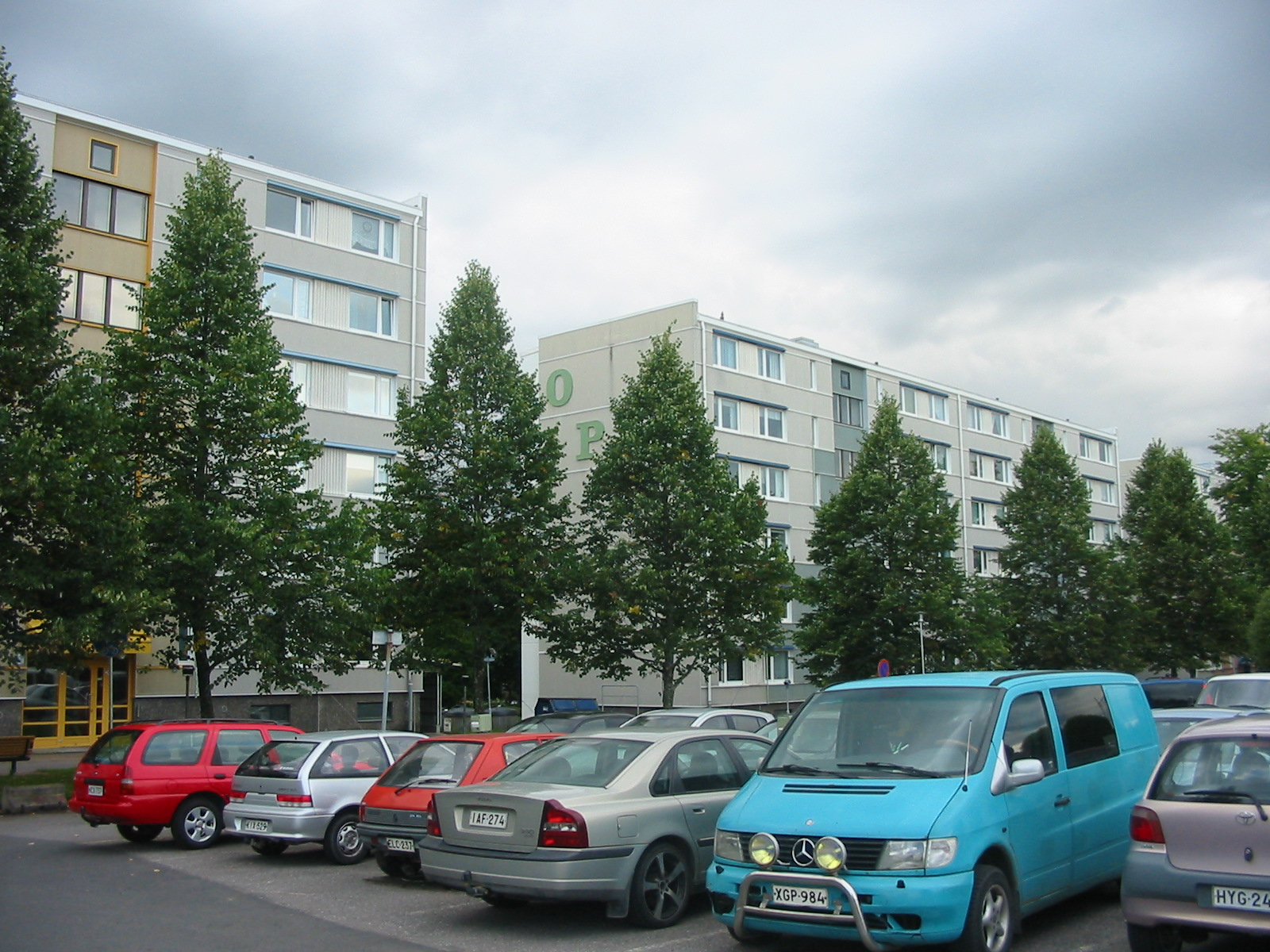 Jyrkkälä housing area in the district of Pahaniemi, Turku, Finland